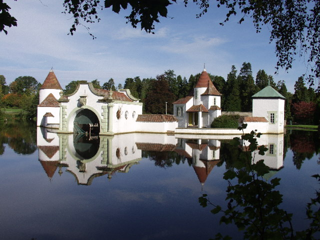 Boating Lake at Craigtoun Park. Great Country Park owned by Fife Council. Train rides, crazy golf, trampolines and rowing boats amongst other things. This photo was taken one Saturday morning just after the park opened for the day.